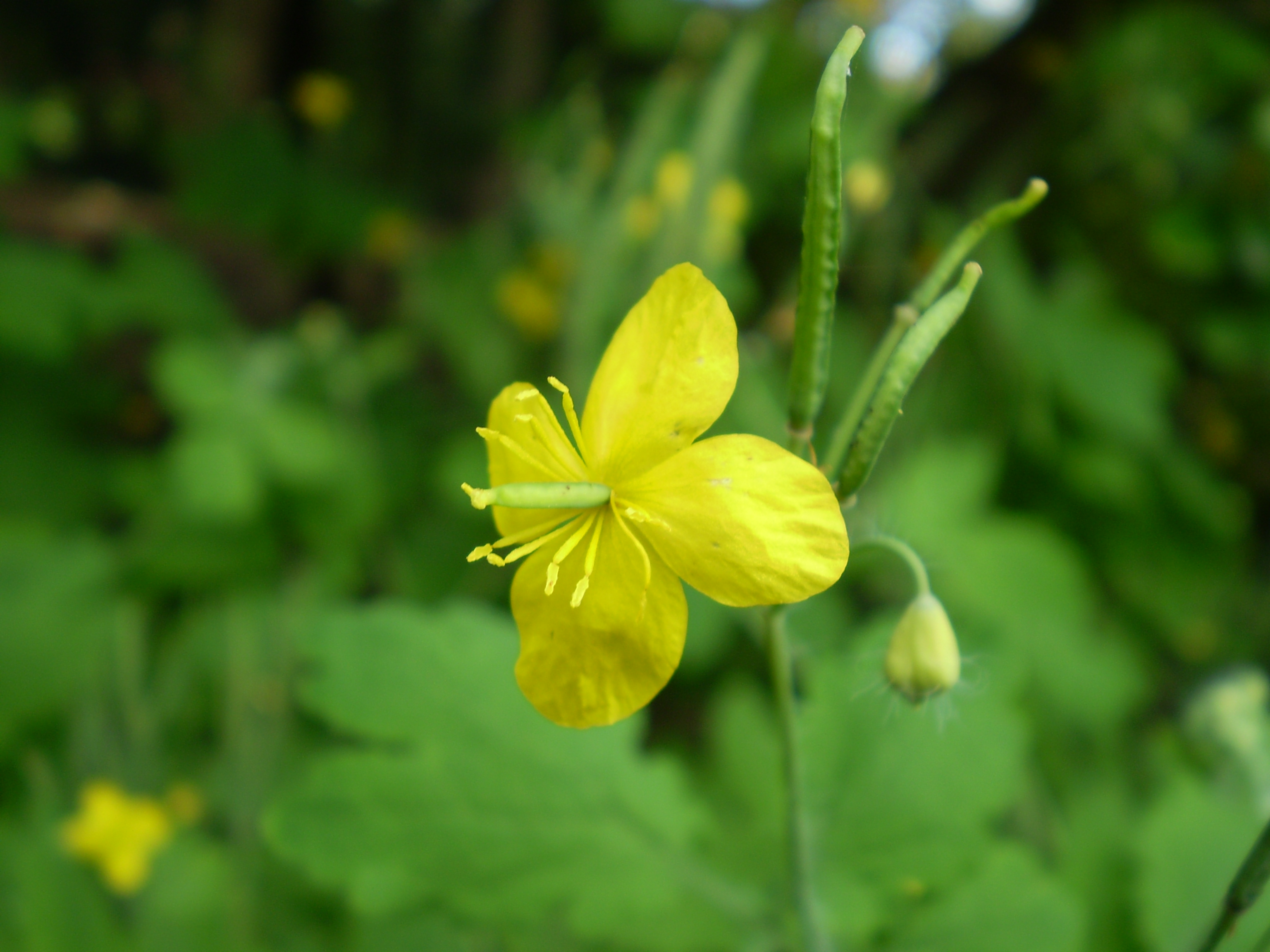 greater celandine, flower & fruit